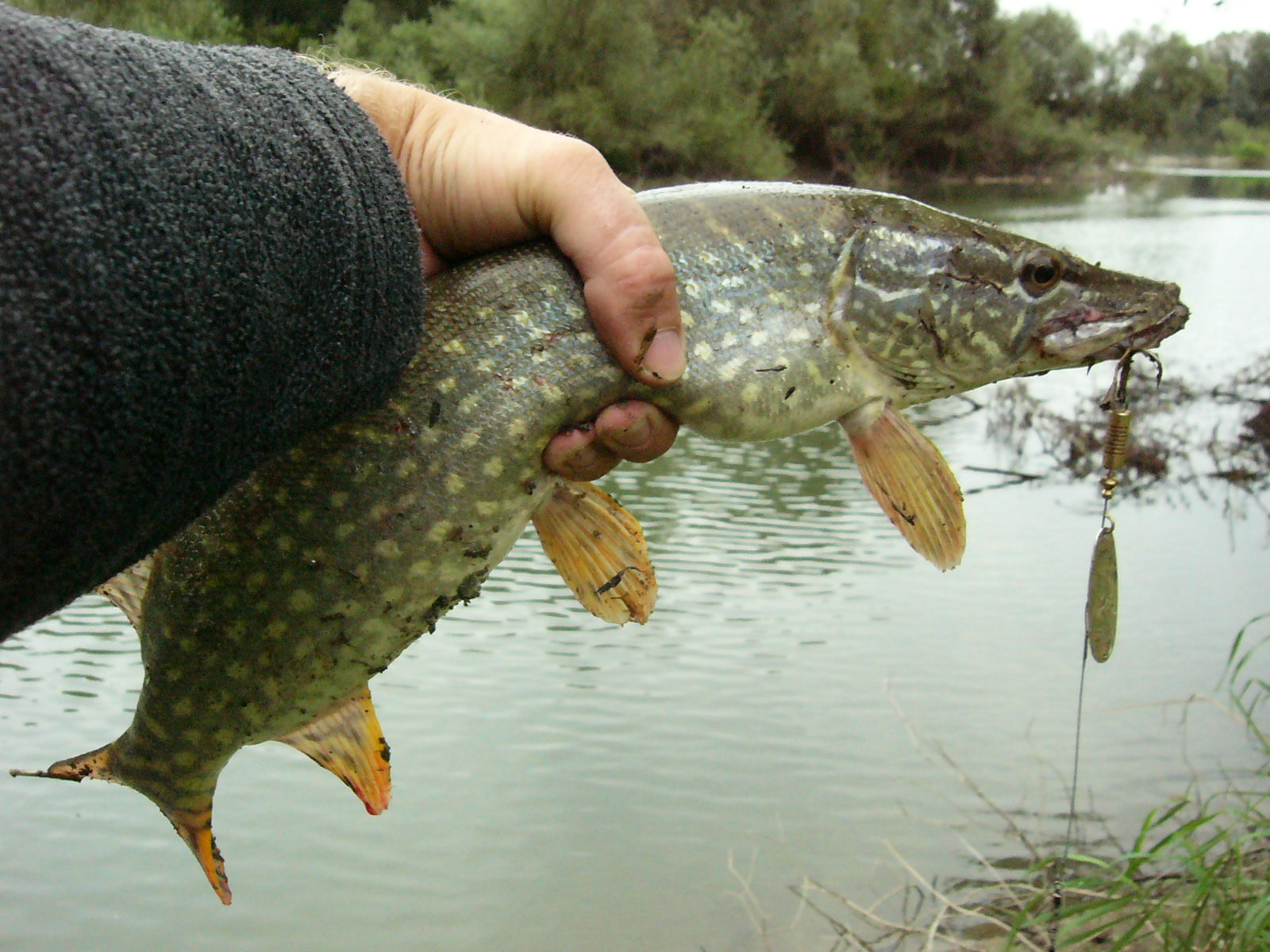 Pike from the river Drava, Sep. 2004